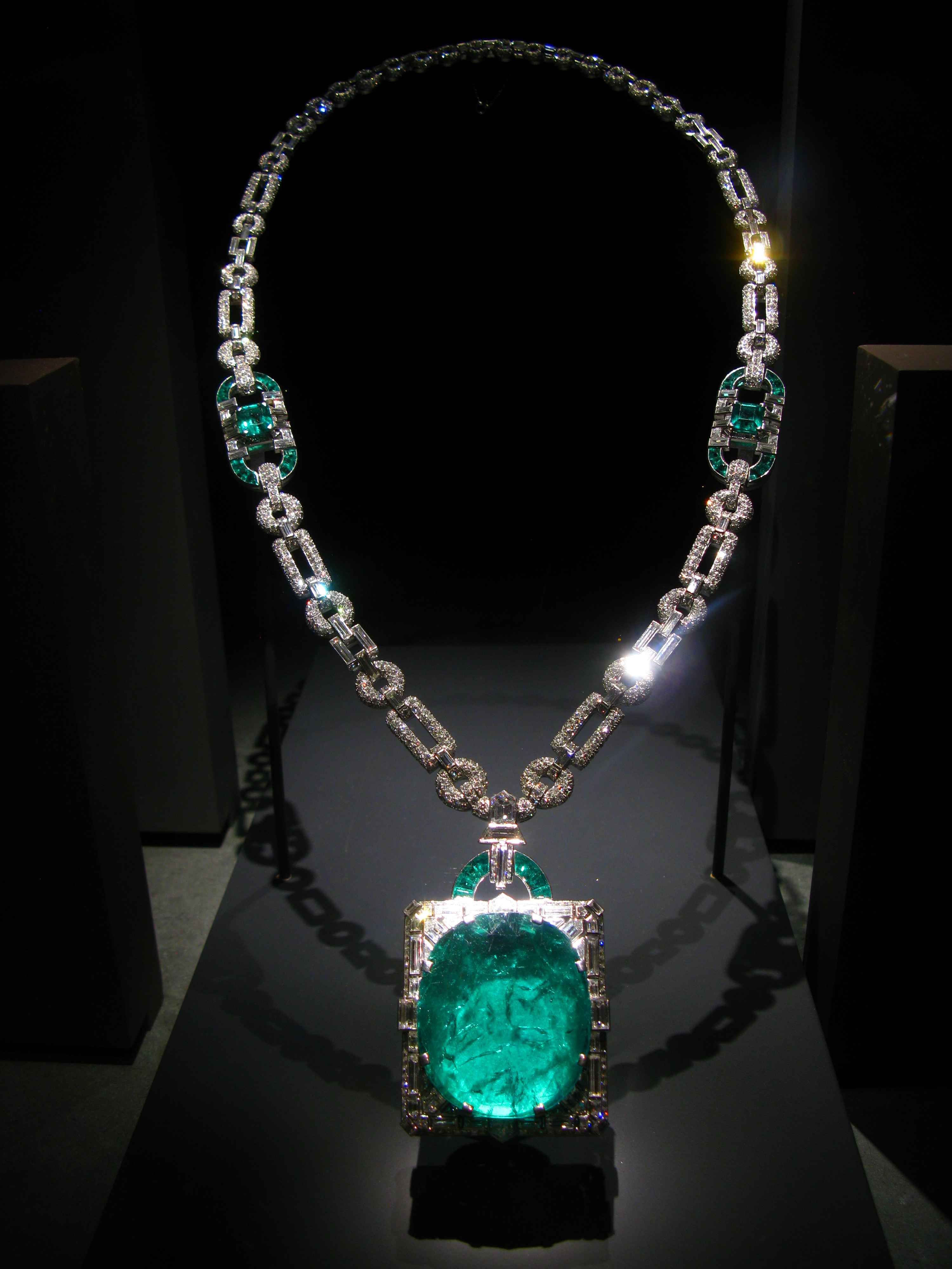 Mackay Emerald and Diamond Necklance 168 carats Muzo, Colombia This huge emerald is set in an art deco diamond and platinum pendant designed by Cartier. In 1931, Clarence Mackay gave the necklace as a wedding gift to his wife, Anna Case -- a prima donna at the New York Metropolitan Opera from 1909 to 1920.